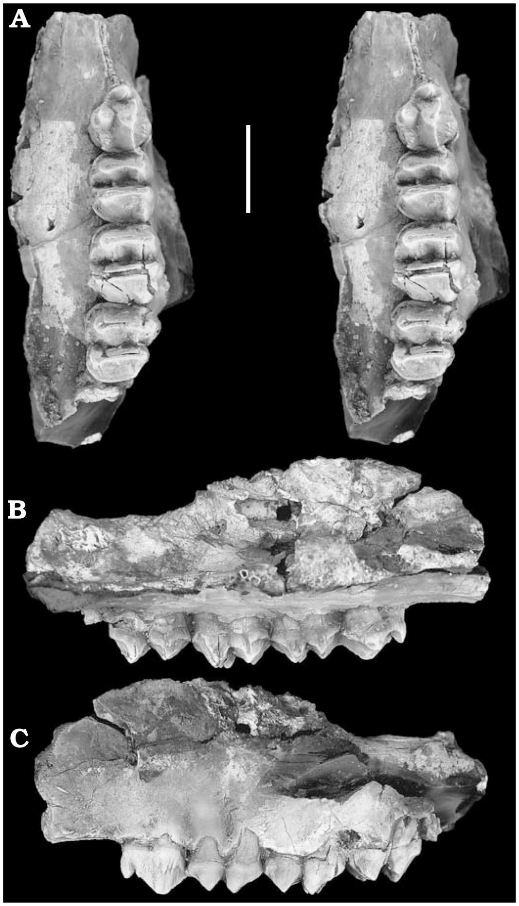 Diprotodontid marsupial Neohelos solus sp. nov. holotype, QMF 30878, partial left maxilla with P3–M3, from the Middle Miocene Cleft Of Ages LF, Riversleigh World Heritage Area, Queensland, Australia. Occlusal stereopair (A), lingual (B), and buccal (C) views. Scale bar 20 mm